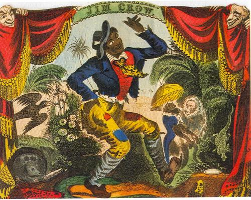 actor thomas rice as jim crow